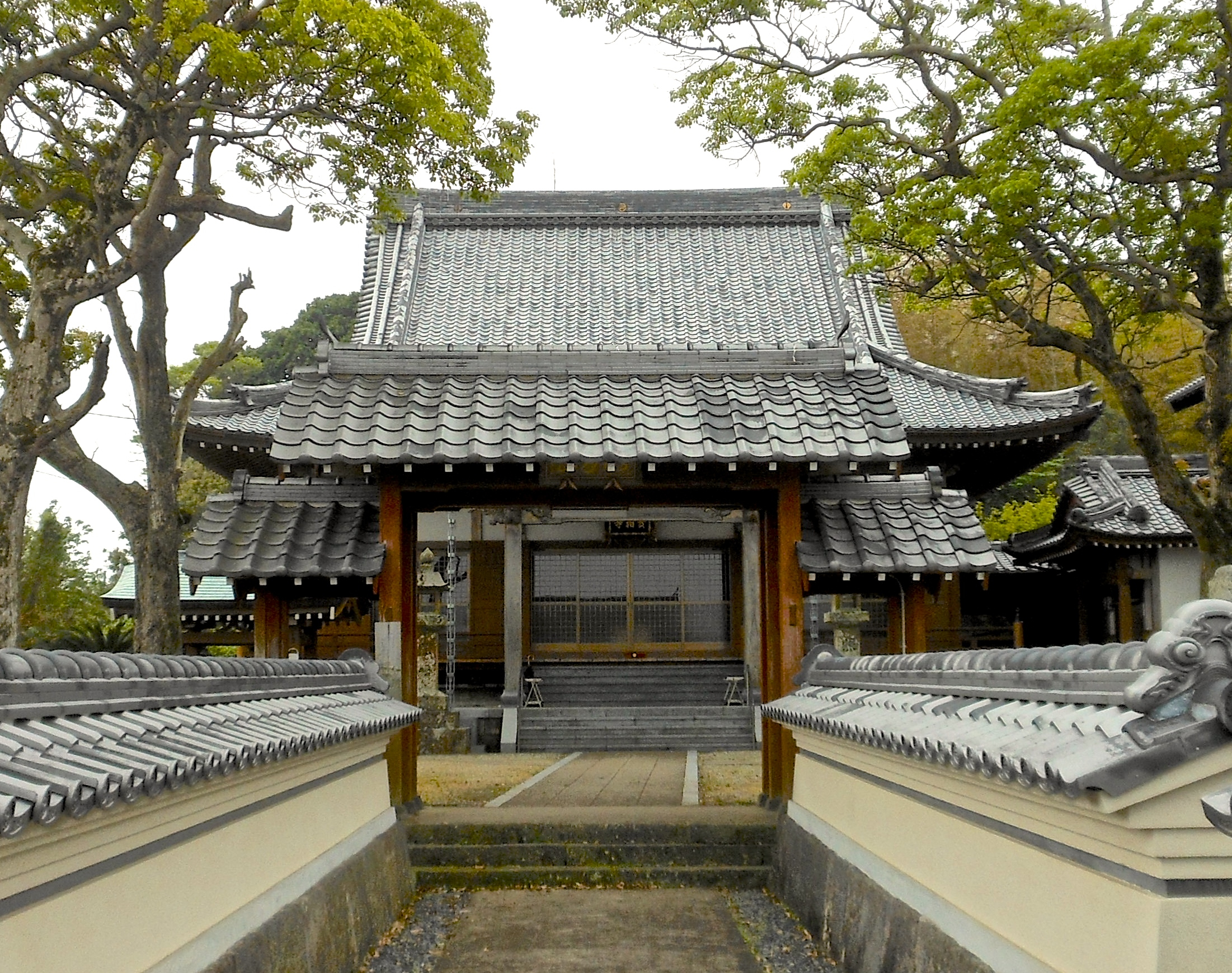 The Otemon-gate,entrance of castle.